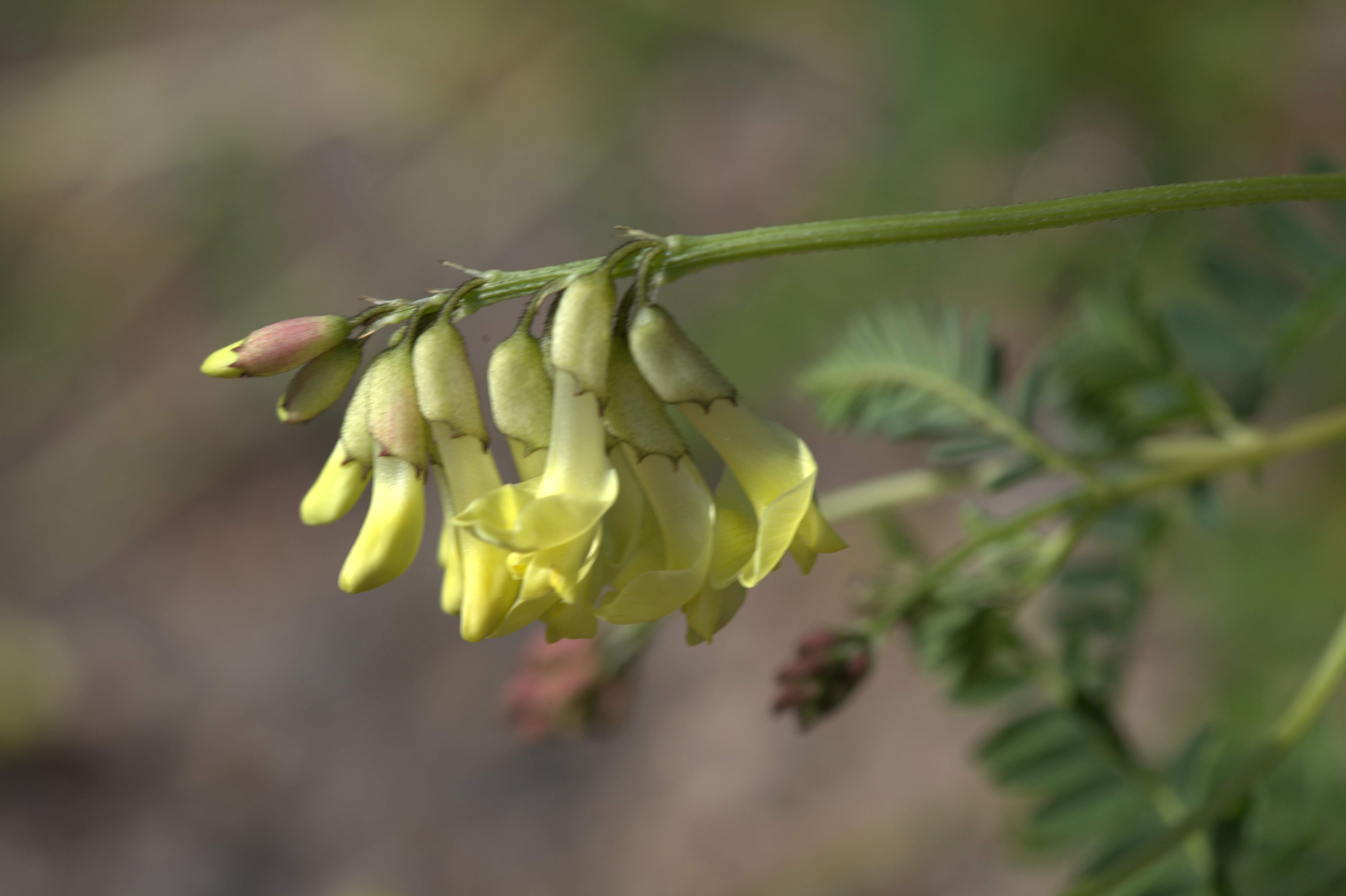 Photo taken at Gothenburg botanical garden. Specimen id: 2011-266 s W Seed collected in 2011 from the wild (Osnabrück).